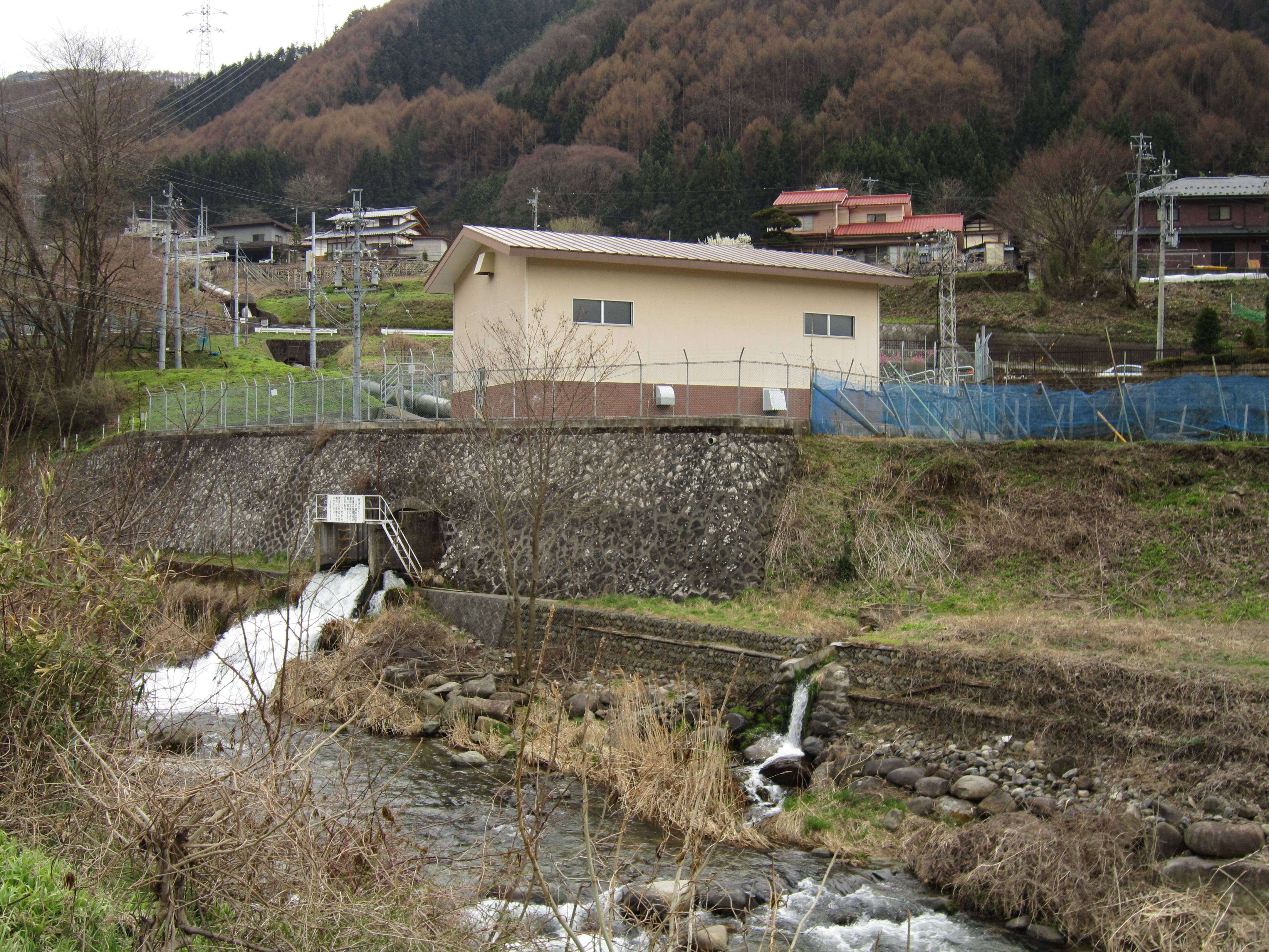 Susukigawa I power station.